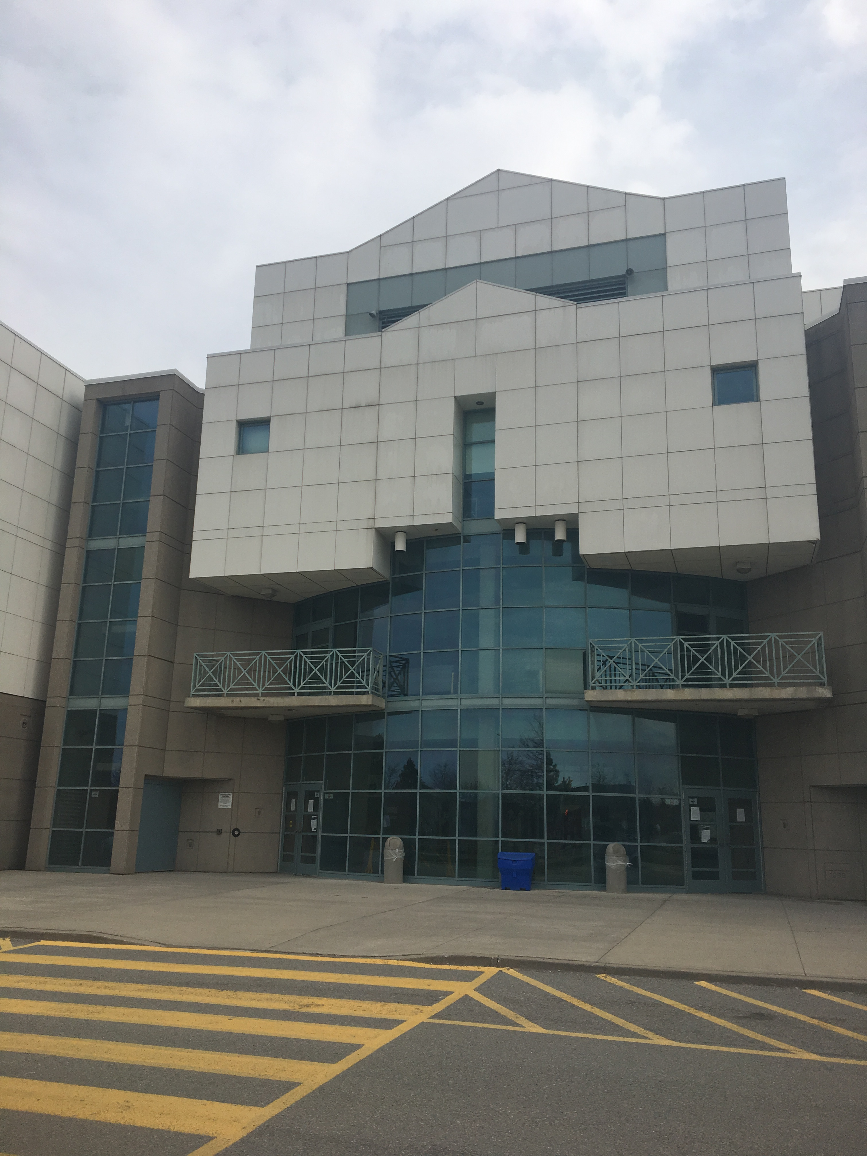 Entrance of Vaughan Secondary School